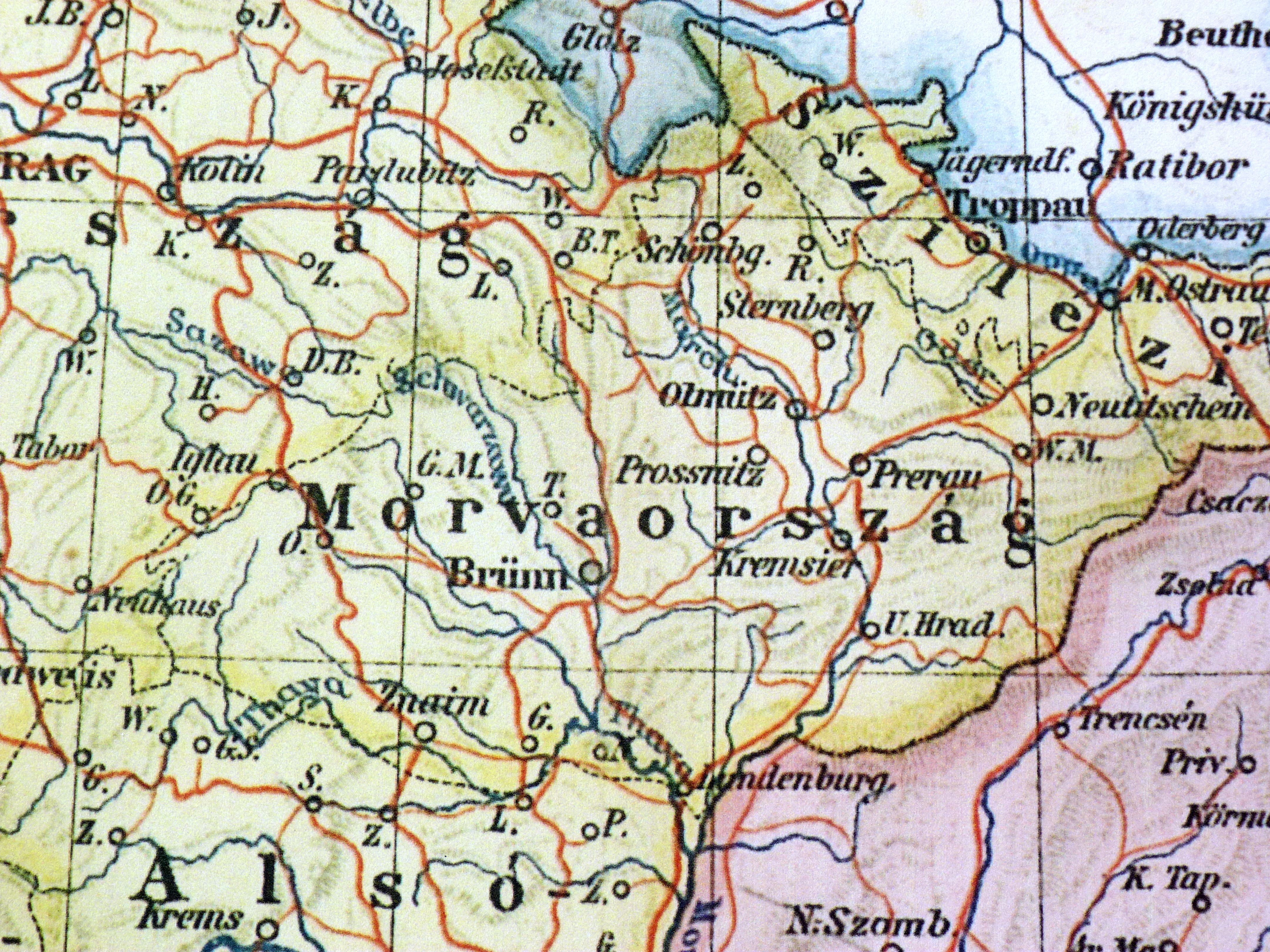 Historical map of railway lines in Bohemia. This image is an excerpt of a larger map showing the Kingdom of Hungary.